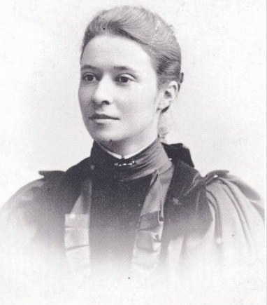 Portrait of Mary Emily Eaton (1873–1961), English botanical artist